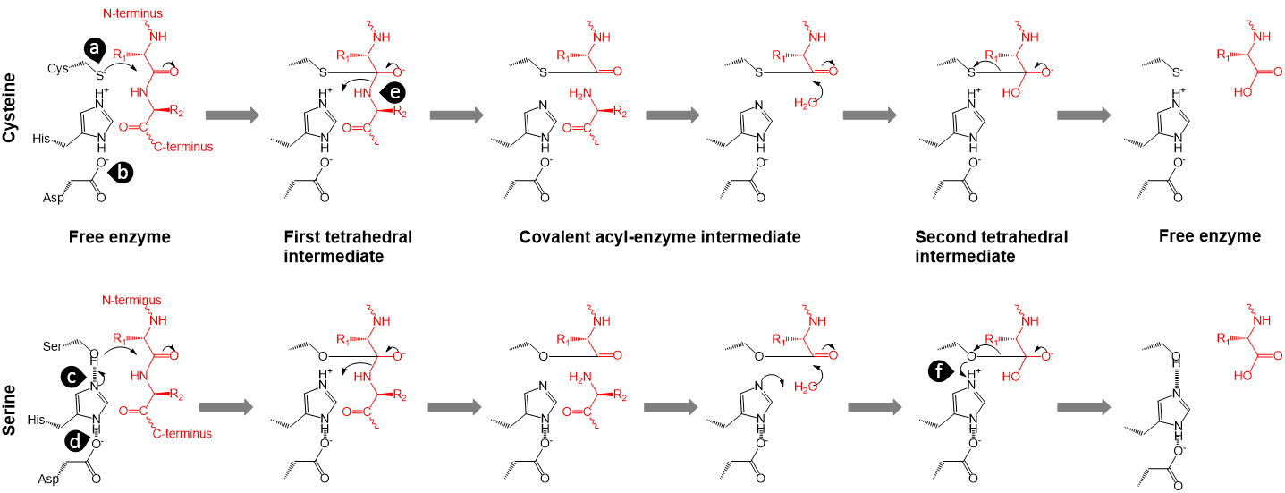 Differences in cysteine and serine proteolysis mechanisms. The protease (black) performs a nucleophilic attack on peptide substrate (red) to form a tetrahedral intermediate. This breaks down by ejection of the first product, the substrate C-terminus, to form the acyl-enzyme intermediate. Water replaces the first product and hydrolysis occurs via a second tetrahedral intermediate to regenerate free enzyme. Indicated differences are (a) the deprotonated cysteine, (b) aspartate (grey) not present in all cysteine proteases, (c) concerted deprotonation of serine, (d) aspartate hydrogen bonding, (e) amide protonation of the first leaving group, (f) alcohol protonation of the serine leaving group.